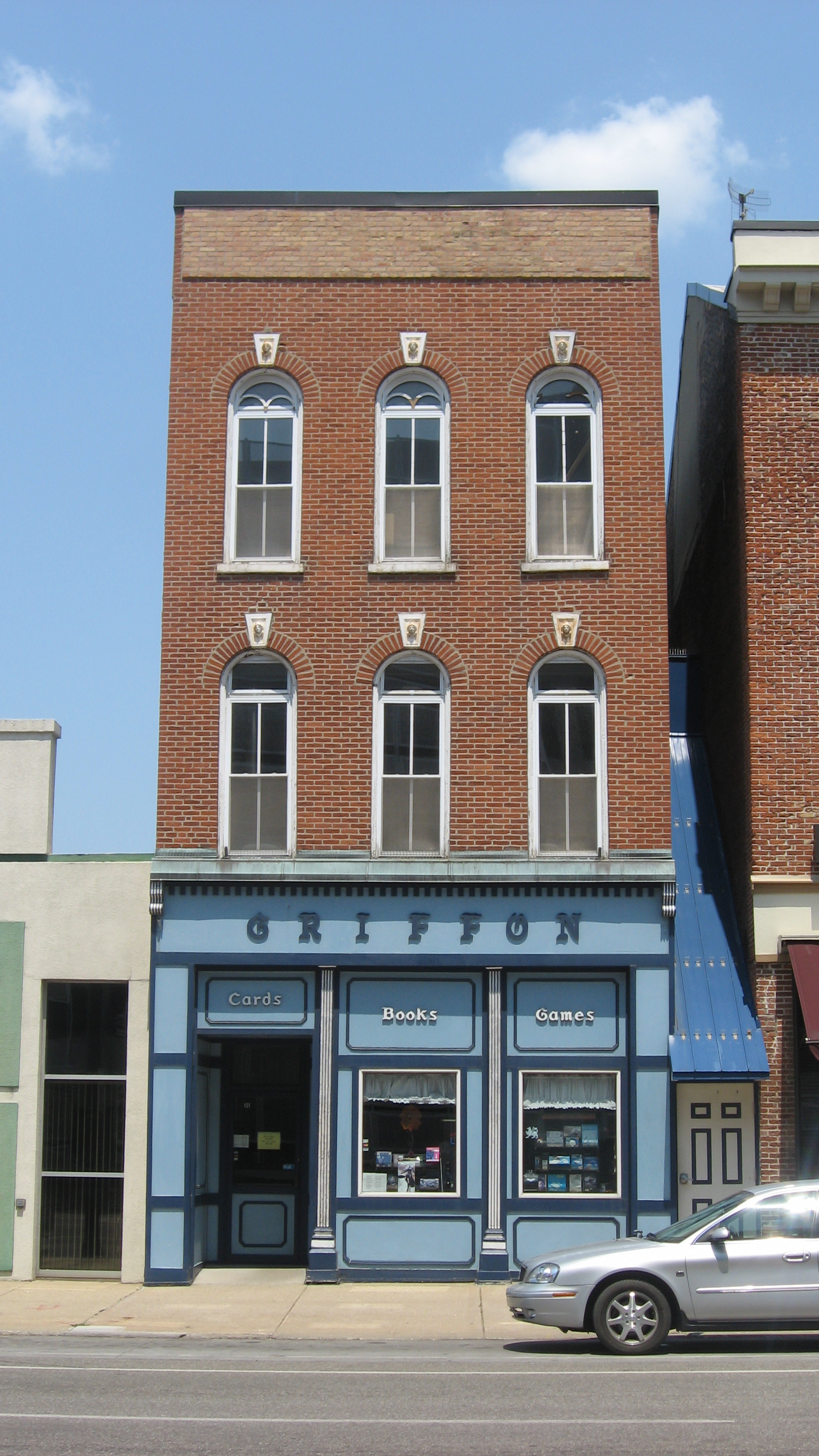 Front of the John G. Kerr Company, located at 121 W. Colfax Avenue in South Bend, Indiana, United States. Built in 1891, it is listed on the National Register of Historic Places.